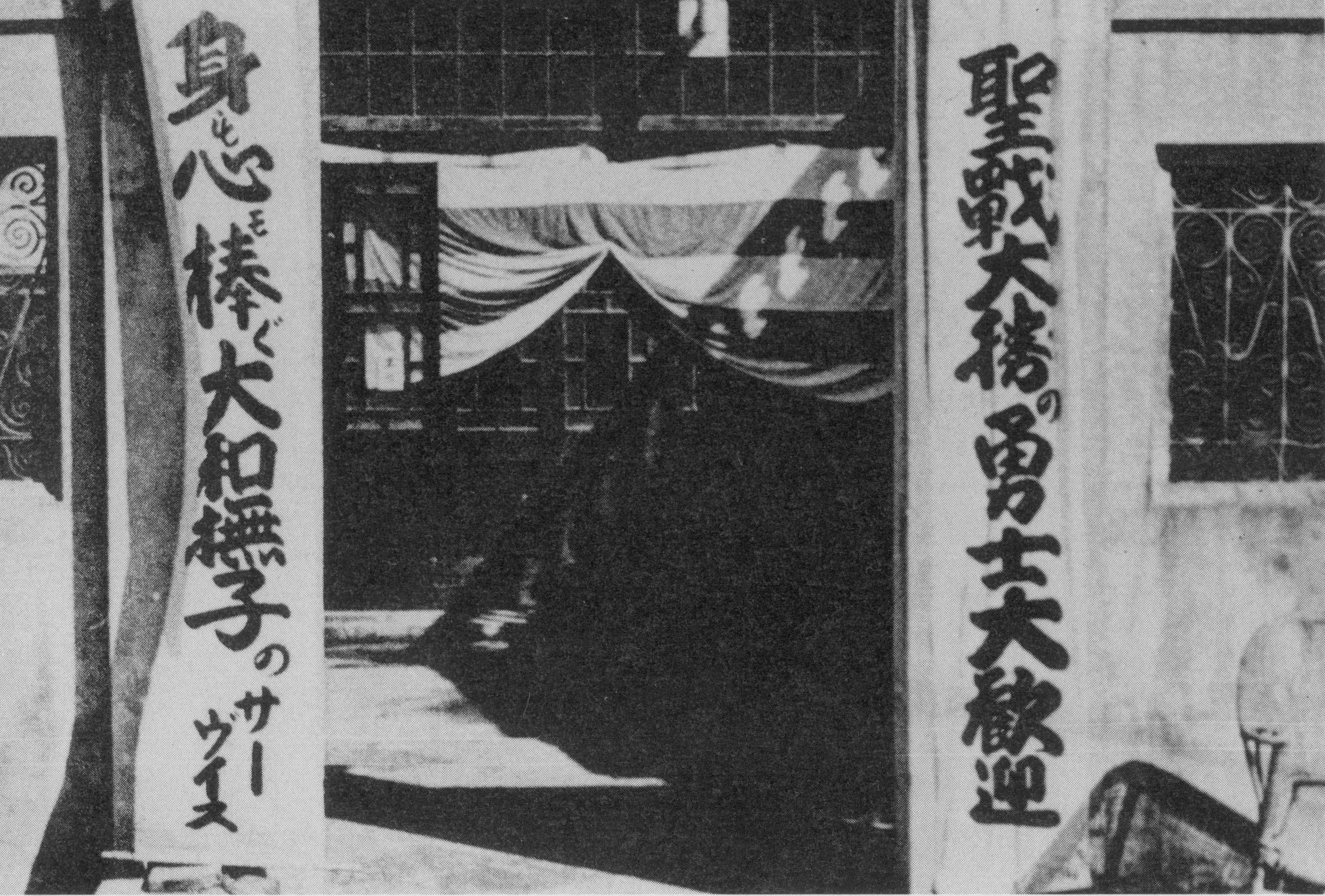 Entrance of a comfort station. "Services of Yamato nadeshikos who devote their body and soul (to you)" "Victorious warriors of the Holy War, Very welcome!"